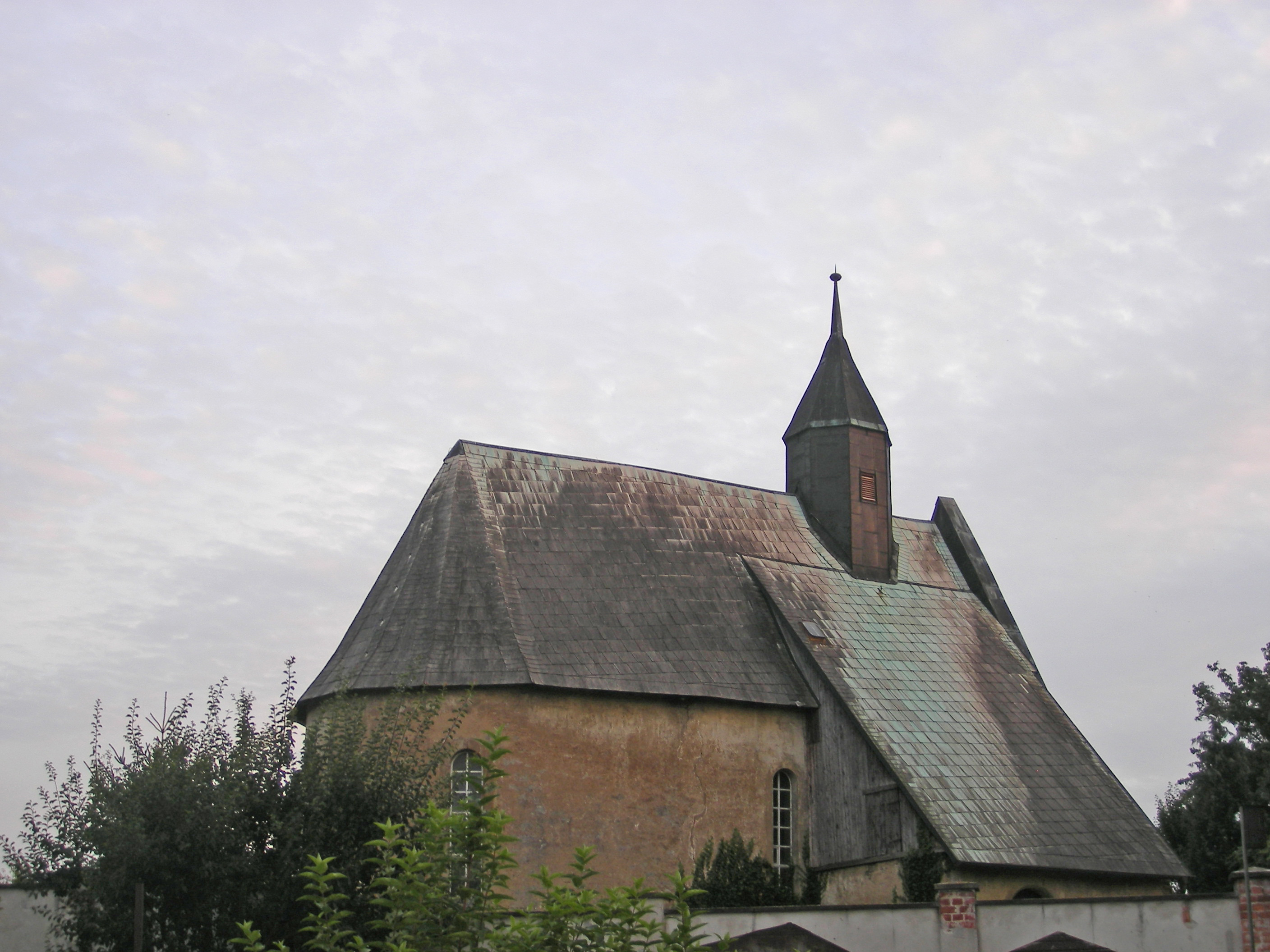 The church in Jauern, Altenburger Land, Thuringia, Germany